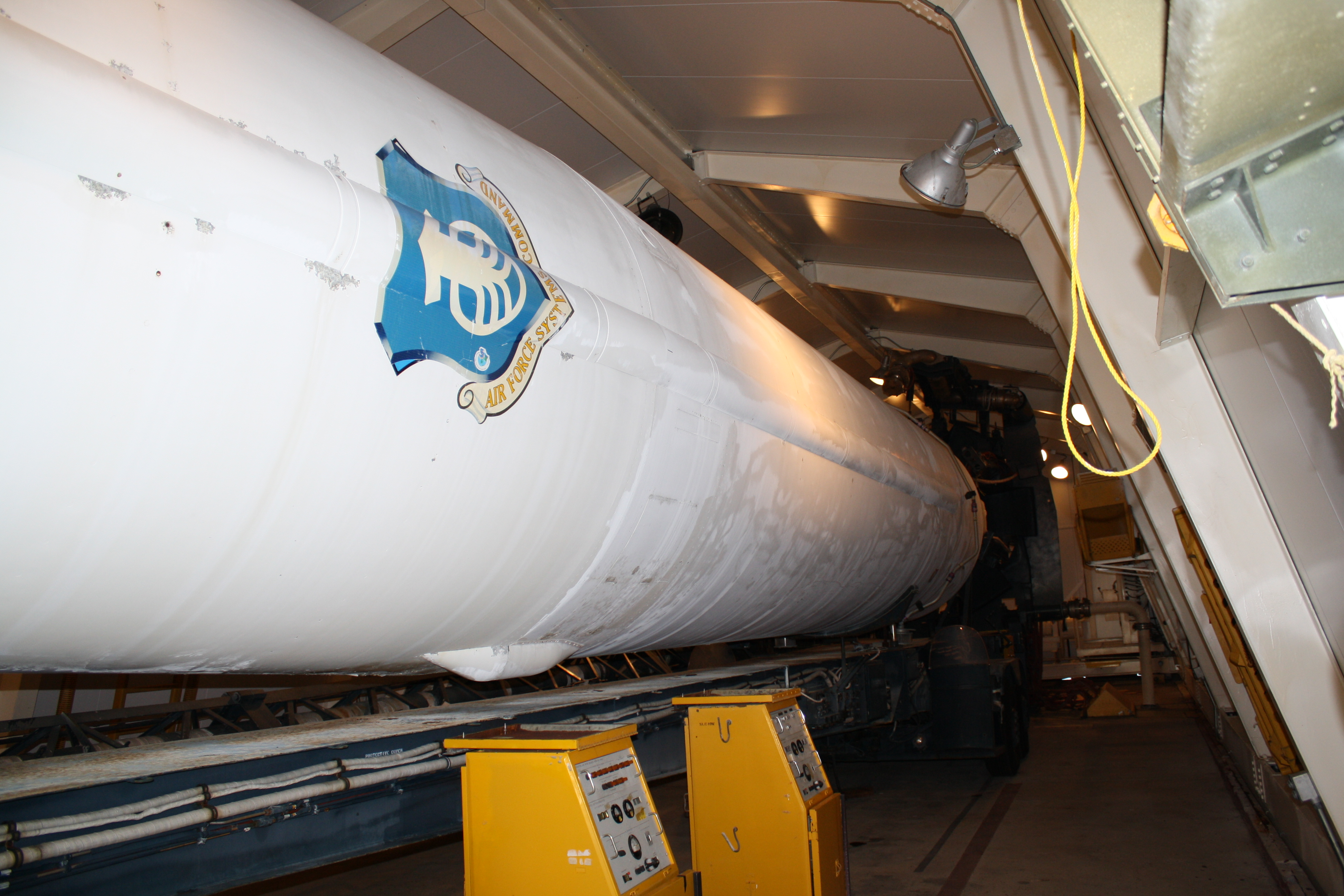 Photograph of Program 437 Thor missile at Vandenberg Air Force Base, California at Space Launch Complex-10